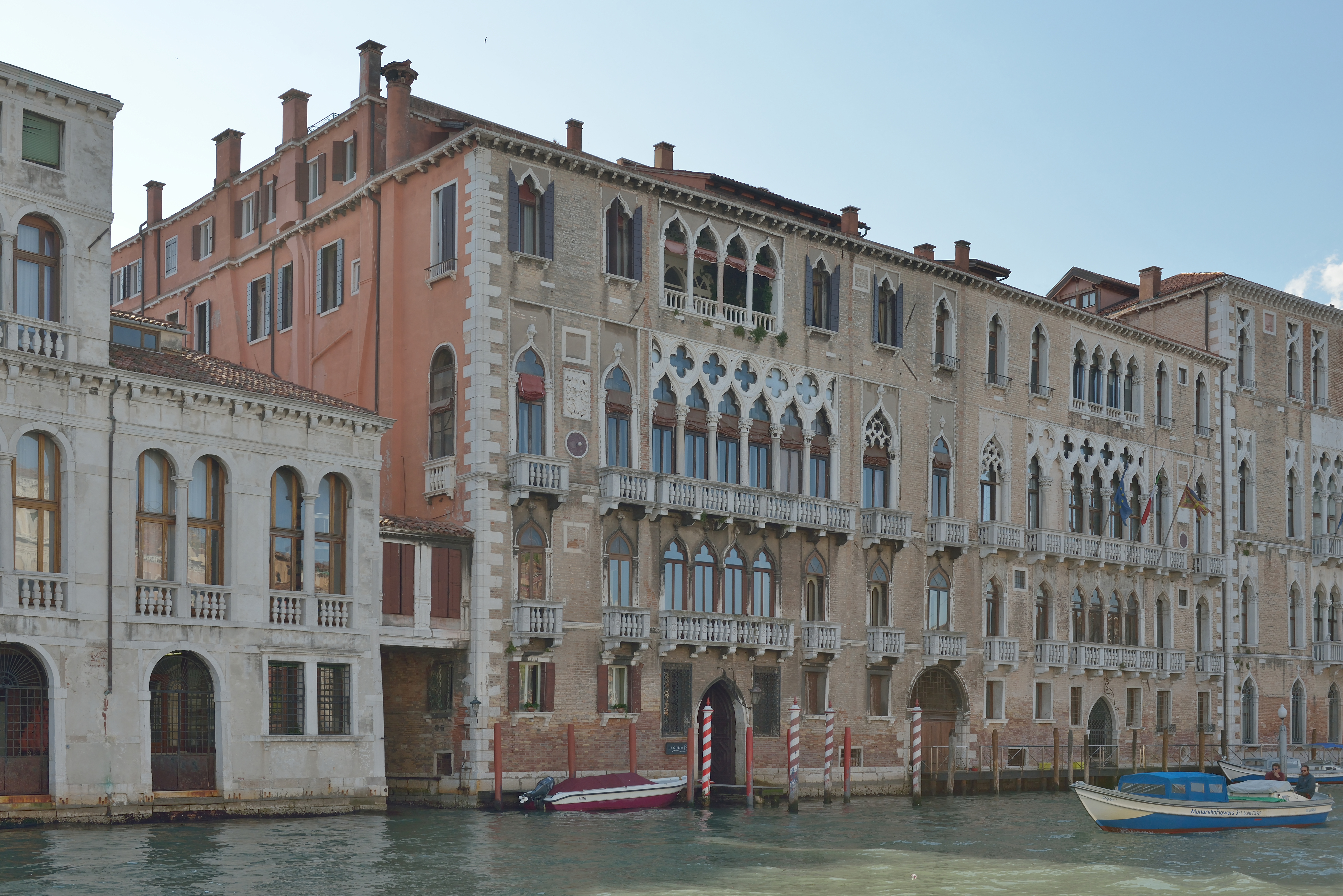 Palazzo Giustinian in Venice. Facade on Grand Canal.